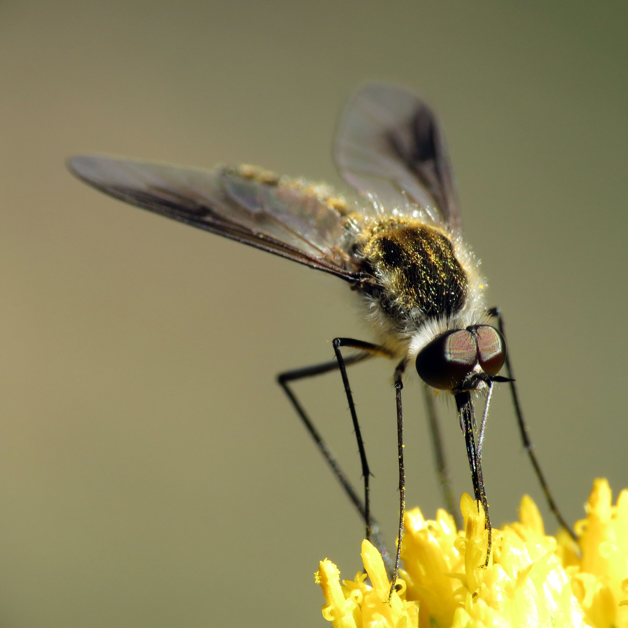 Thevenetimyia speciosa. Molino Basin, Santa Catalina Mountains, Pima County, Arizona, USA. 18 September 2012.